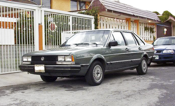 1984 Volkswagen Corsar CD (Mexico)